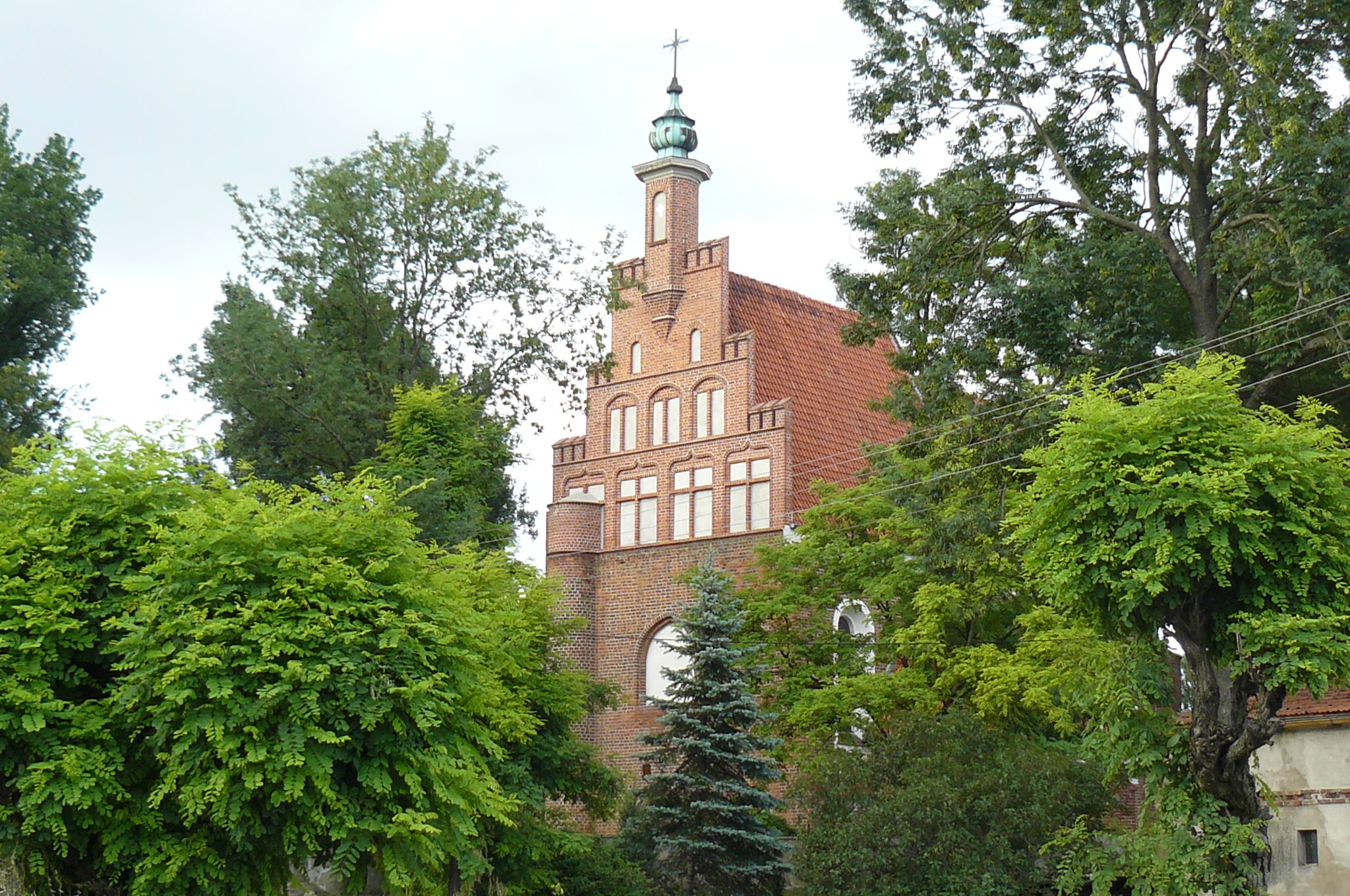 Church of the Nativity of the Virgin Mary in Kaźmierz, Poland.